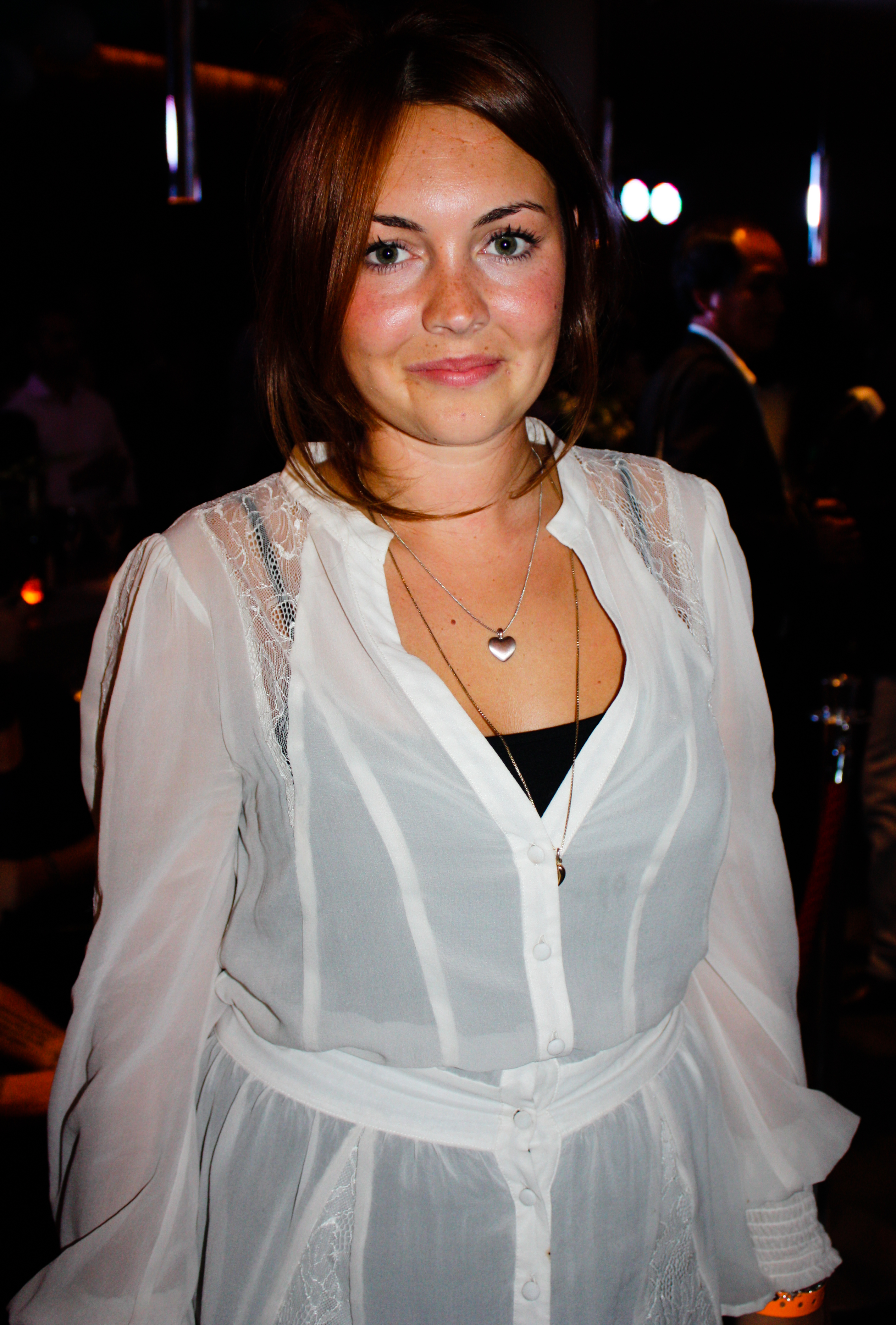 Actress Lacey Turner in September 2010. Photo taken by Ramon Chiratheep.